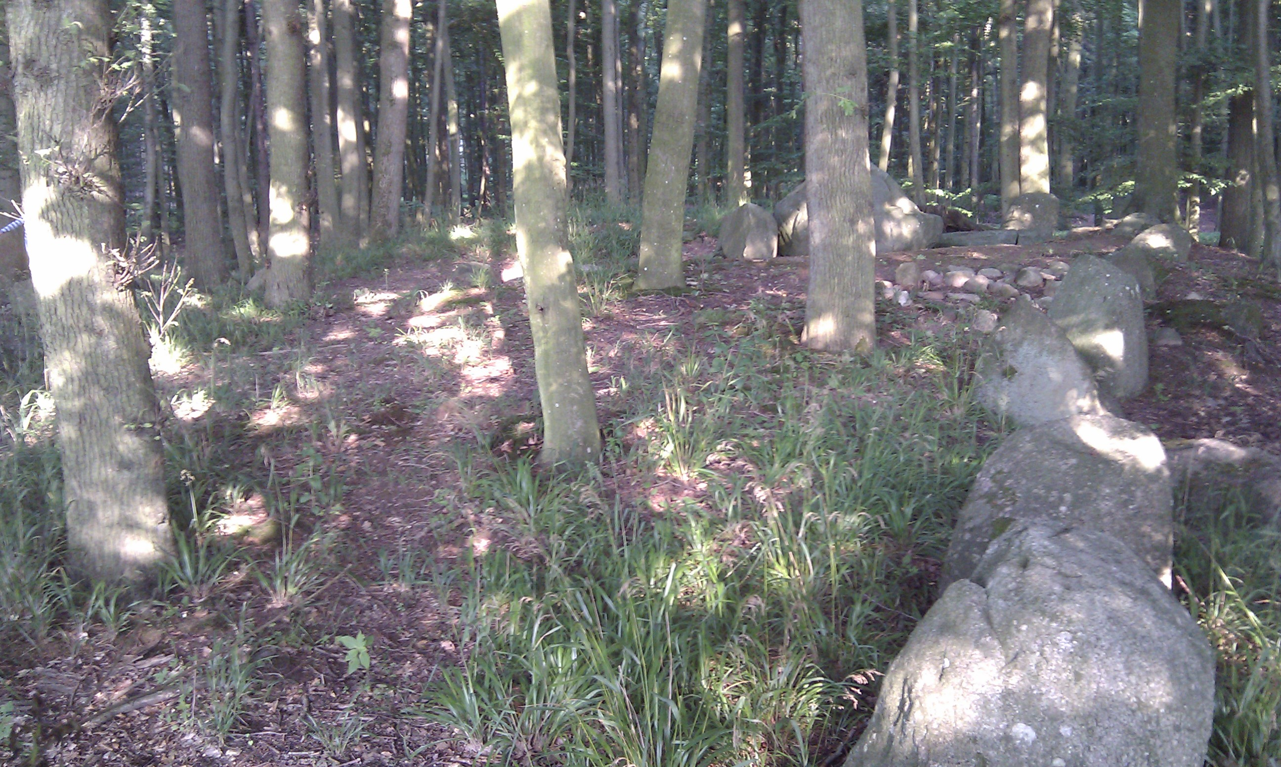 Poggendorfer Forst Großdolmen 3 Hünenbett